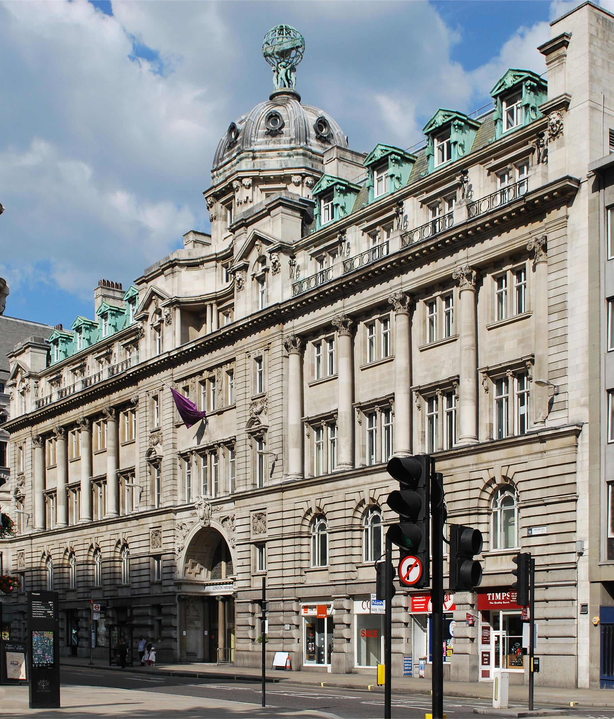 Electra House (n. 84 Moorgate, City of London), seen from London Wall.